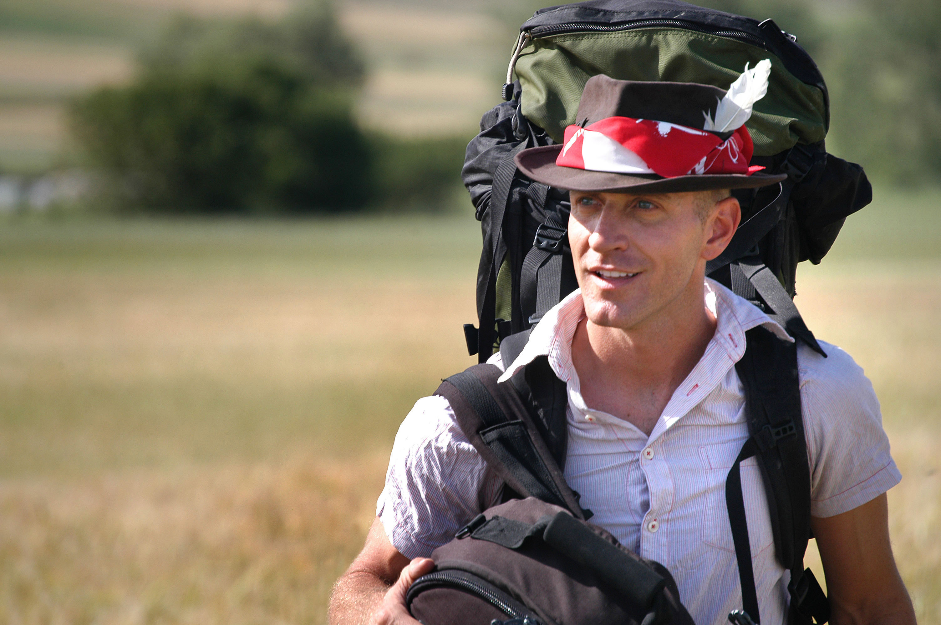 Photograph of Dominic Arizona Bonuccelli